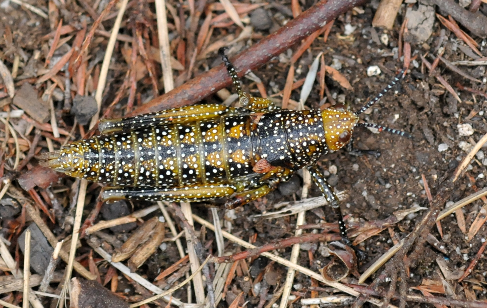 This beautiful grasshopper was seen near the summit of Mt Erica, in the Baw Baw National Park. I have tried to identify it and from what I have read, it think it may be a Yeelanna pavonina (Colourful Yeelanna) but would like confirmation.